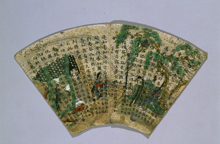 Fan-shaped Booklet of the Lotus Sutra, Volume 8（扇面法華経冊子 巻第八）12th century in Japan